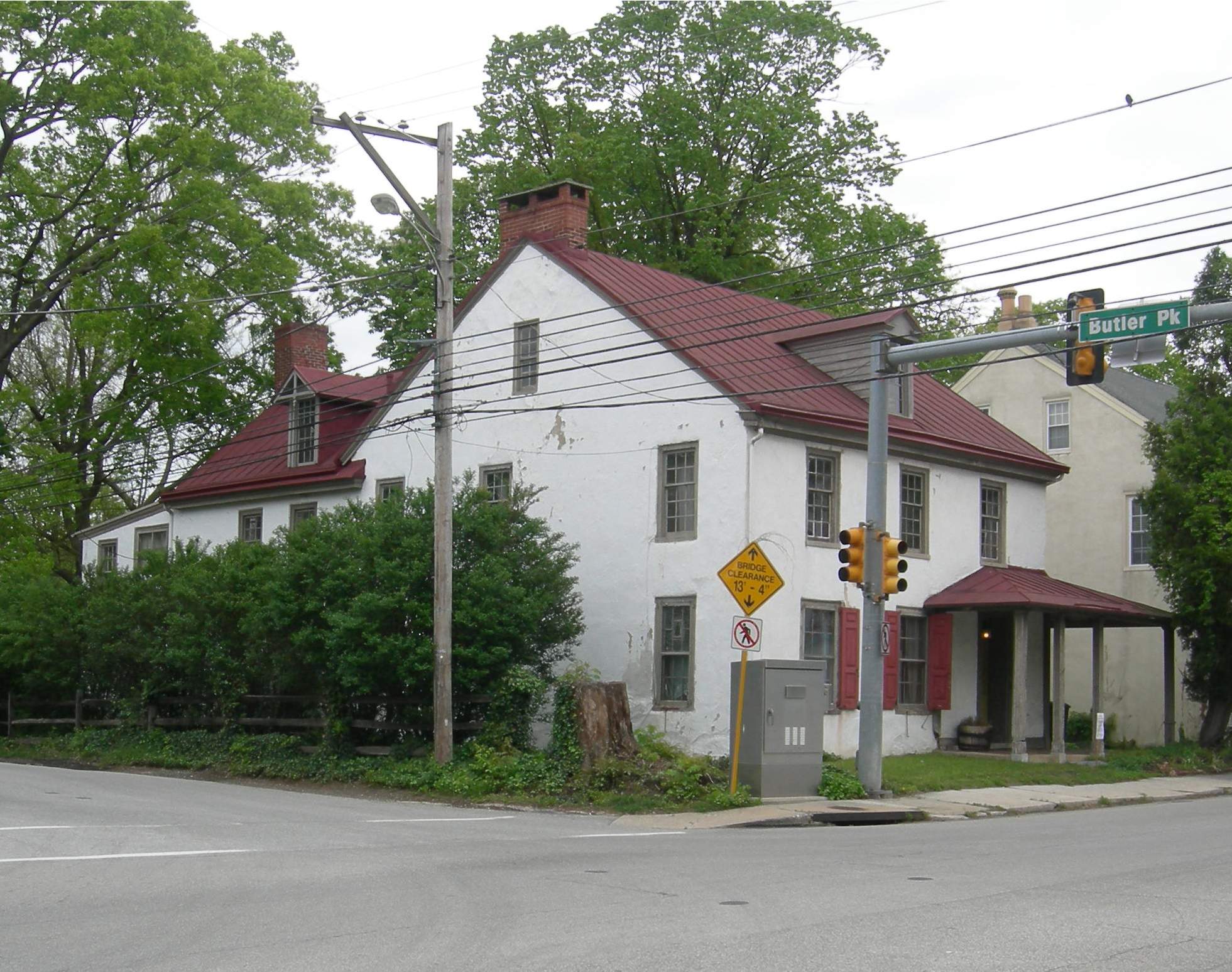 The Maulsby-Corson-Hovenden House, at the northeast corner of Germantown & Butler Pikes, was begun in 1767. It was expanded c.1795 by Samuel Maulsby (1768-1838). His daughter Martha (1807-1870) and her husband George Corson (1803-1860) made it a station on the Underground Railroad. Their daughter Helen (1846-1935), a painter who trained in Philadelphia and Paris, married the Irish-born painter Thomas Hovenden (1840-1895). They lived here until their deaths.